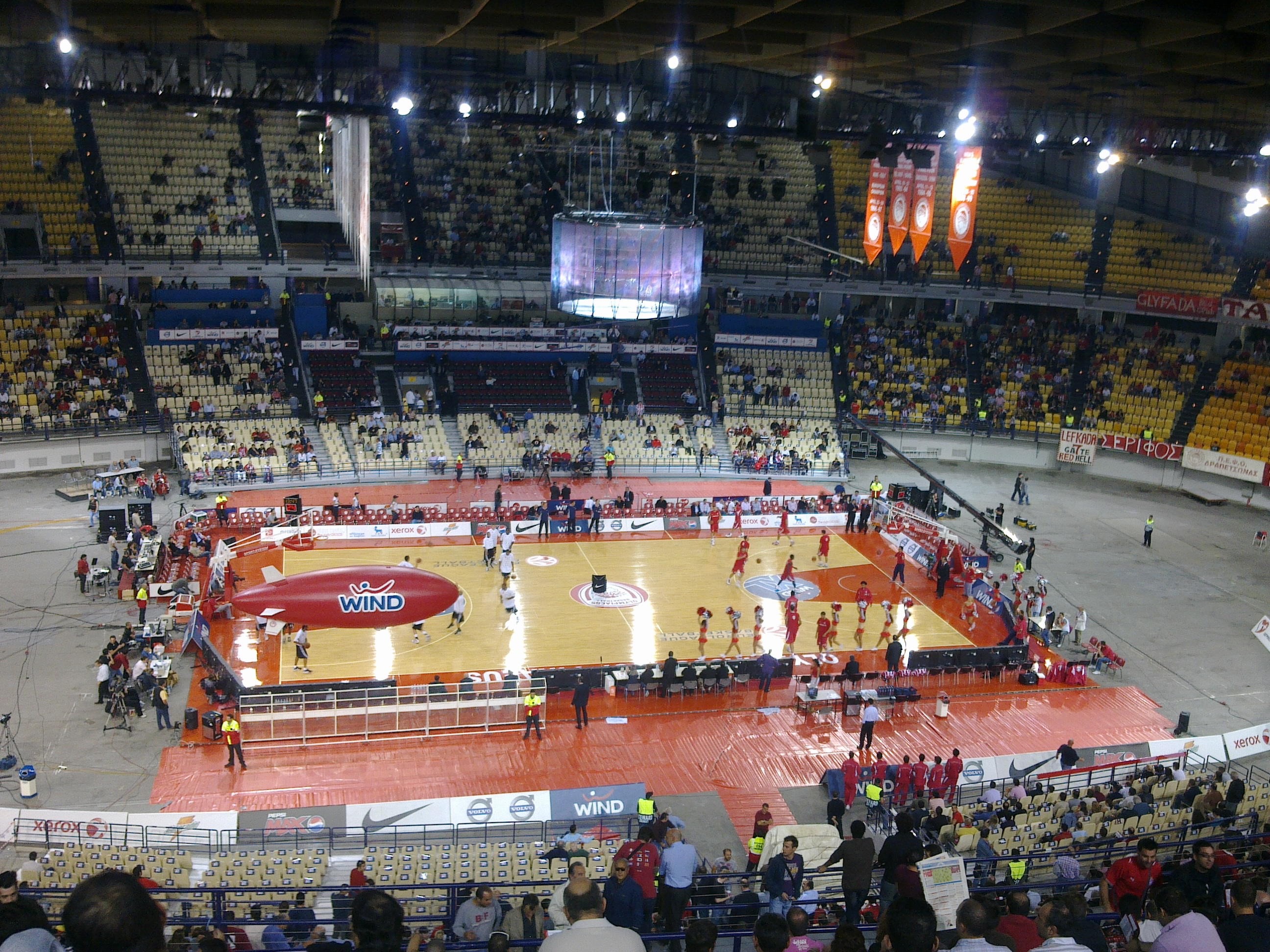 Olympiacos BC-Entente Orléanaise Loiret warmup